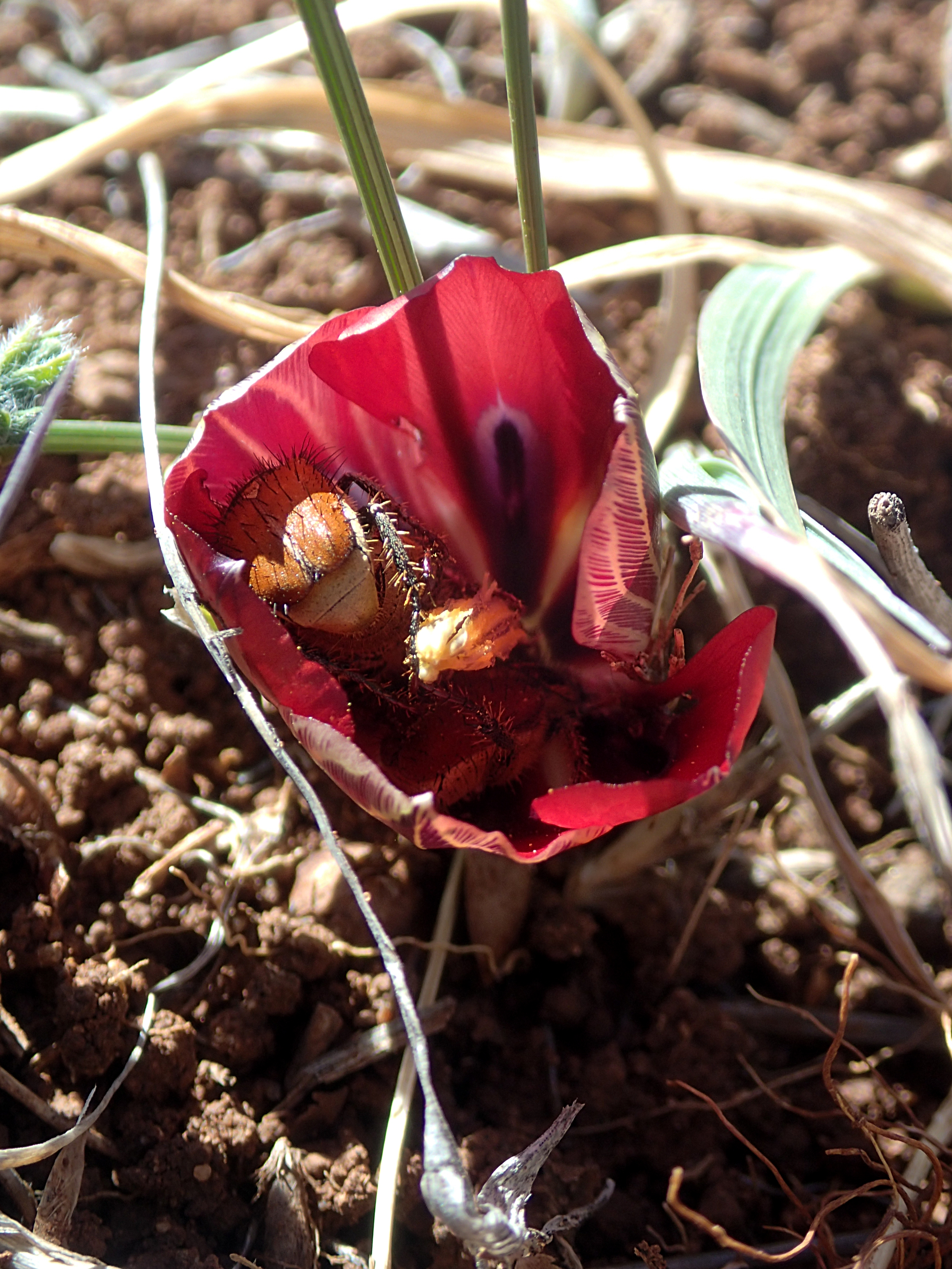 Karroosatynblom Romulea monadelpha, visited by the monkey beetle Clania glenlyonensis, photographed at Hantham National Botanical Gardens